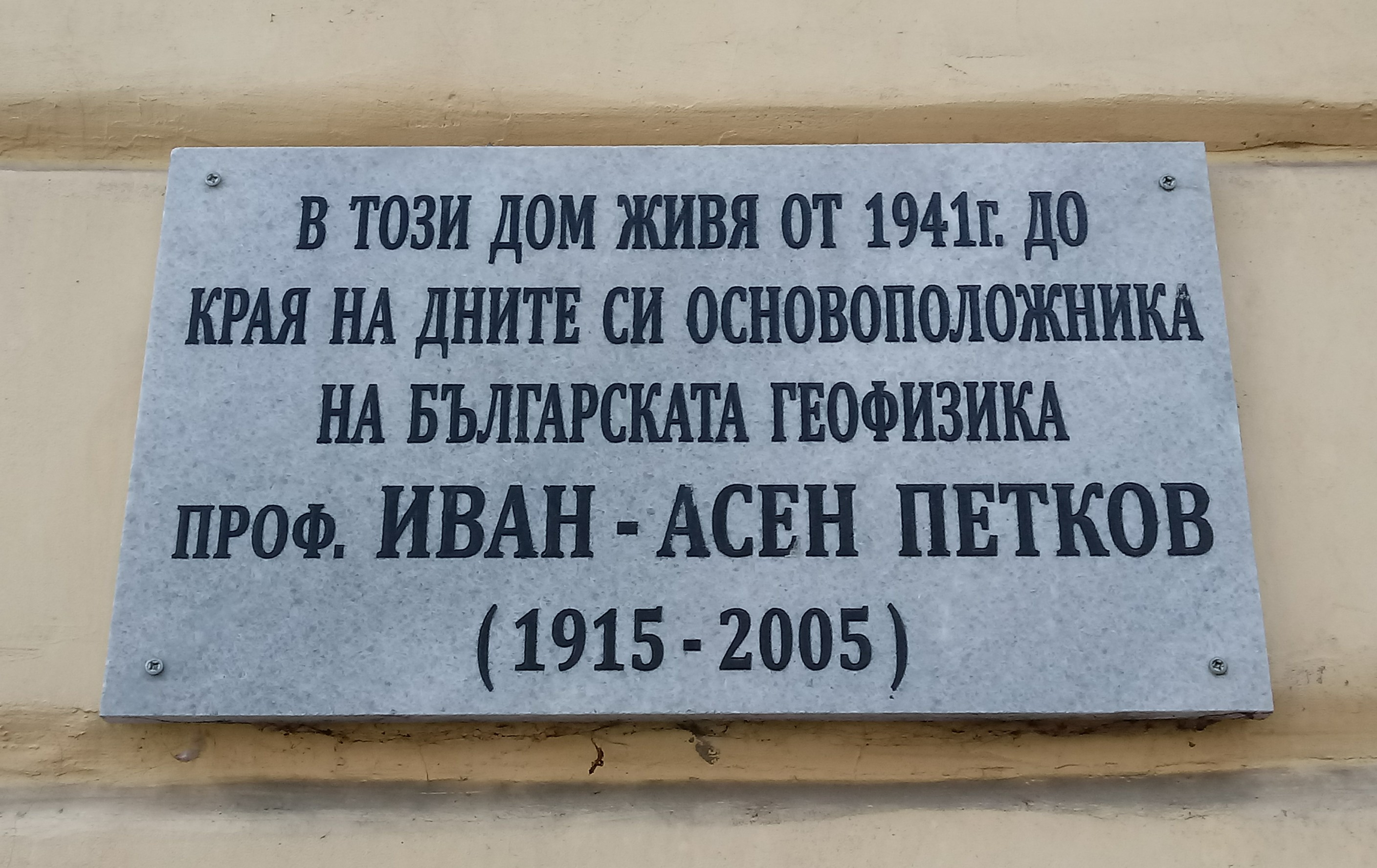 Ivan-Asen Petkov memorial plaque, corner of Evlogi i Hristo Georgievi Blvd. and Madrid Blvd., Sofia